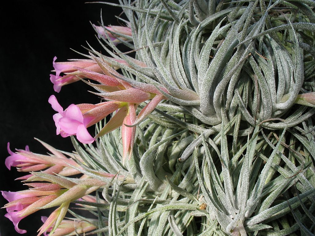 Tillandsia sucrei, in cultivation at the Botanical Garden of Heidelberg, Germany.